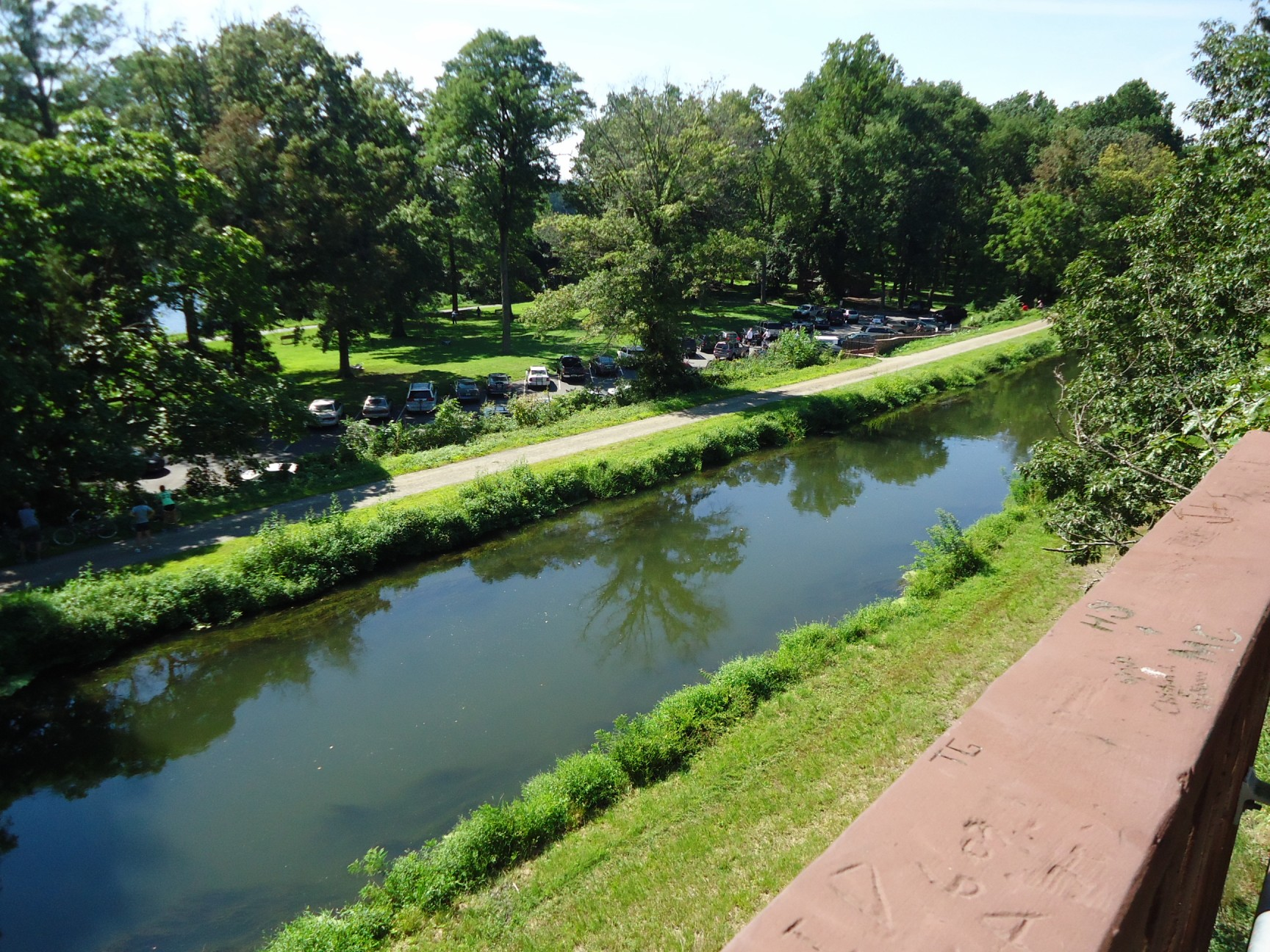 The Delaware & Raritan canal, looking northwest, from a footbridge. The canal parallels the Delaware River (left, not in view) and was used to transport heavy goods across the state.